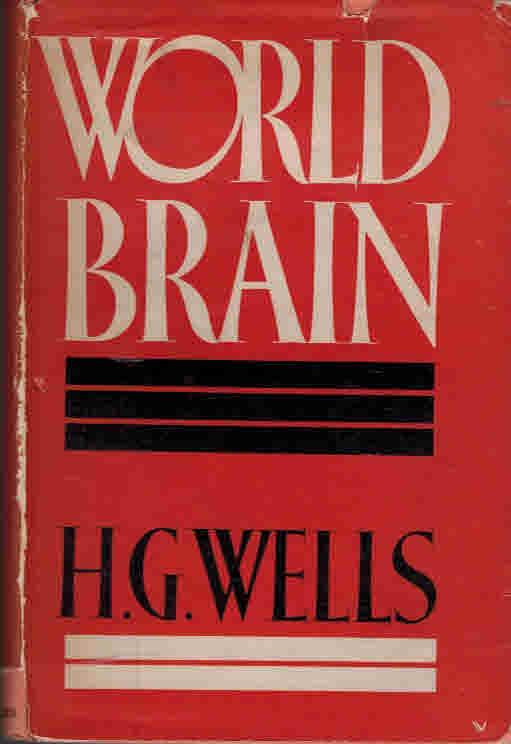 Cover of the book World Brain by H. G. Wells. Published by Methuen & Co Ltd, London, 1938.